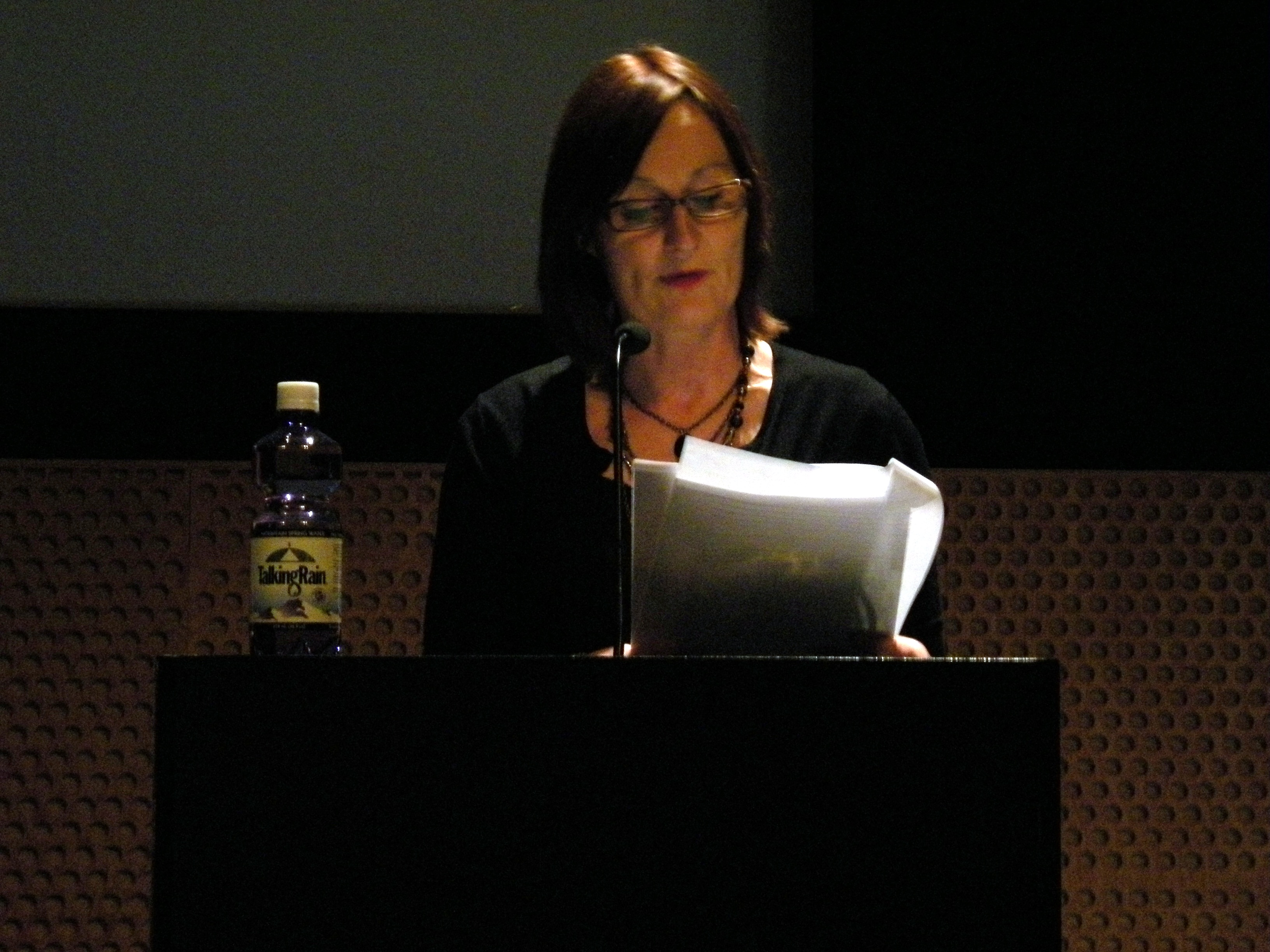 Music historian Lucy O'Brien (Goldsmiths College, University of London) on the panel Spectacular Diva Excess at the 2009 Pop Conference, Experience Music Project, Seattle, Washington.